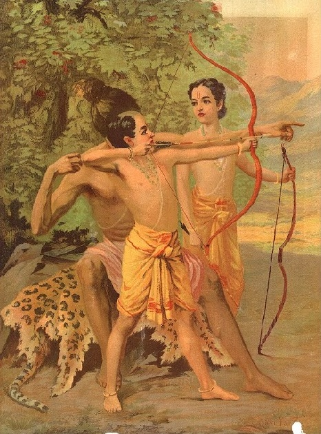 Viswamitra's archery training Viswamitra training Rama and Lakshmana